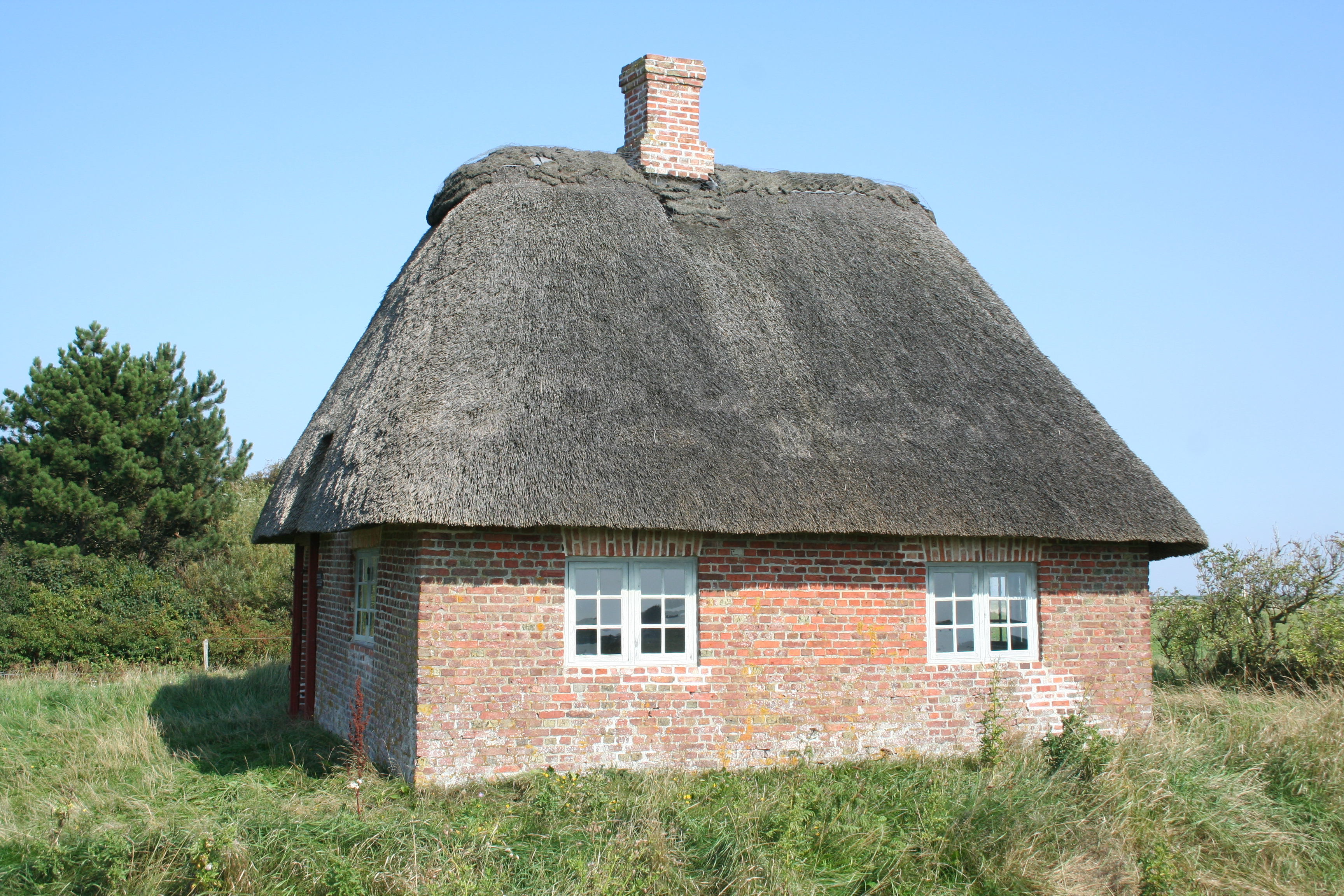 This picture shows the old school in Toftum, Rømø.